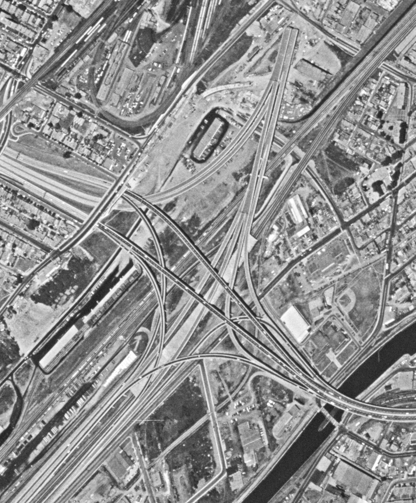 The Turcot Interchange in Montreal, Canada, as photographed by a KH-9/HEXAGON satellite during mission 1201.